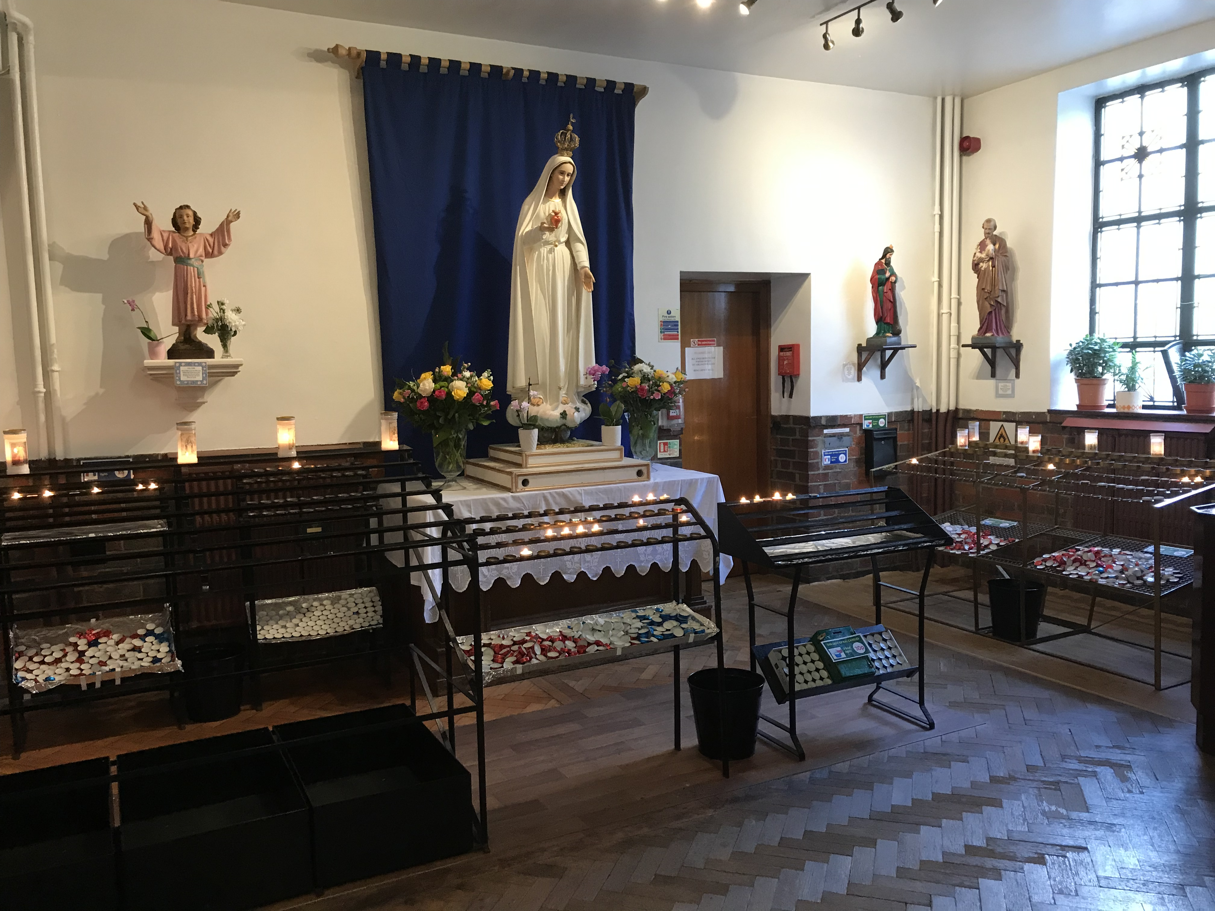 iStatue of Our Lady of Hal in Camden Town